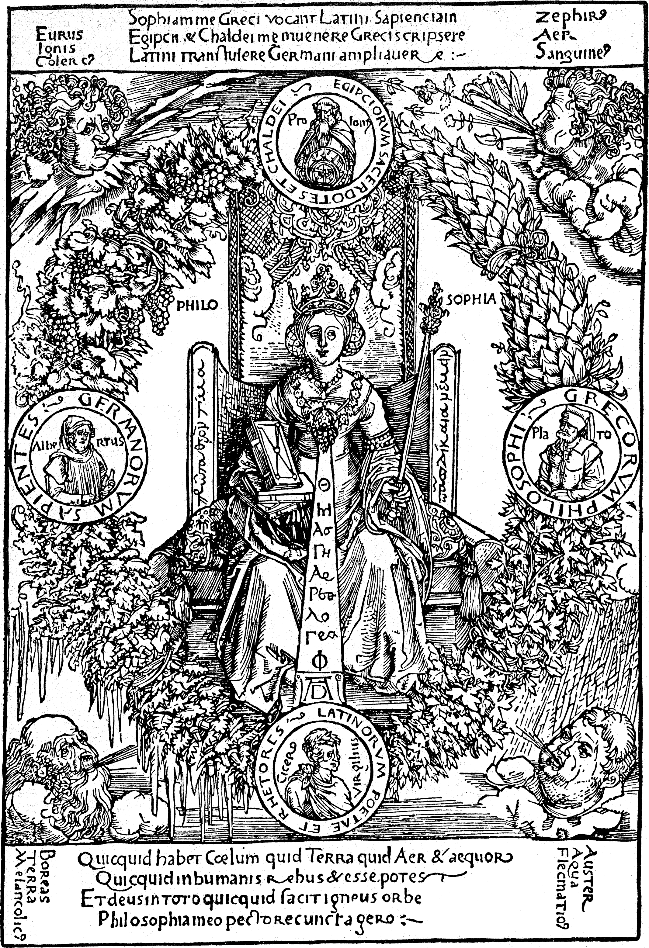 Woodcut Philosophia (personification of philosophy), inspired by Boëthius’ Consolation of Philosophy. Four famous wise men (Plato, Ptolemy, Cicero or Virgil, Albertus [Magnus]) represent “Greek philosophers”, “Egyptian priests”, “Roman poets and orators”, “German wise men”. In the corners, the four personificated winds stay for the four cardinal points, elements and temperaments associated with them.